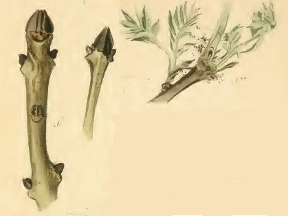 Stainton’s Natural History of the Tineina (1855–1873): Prays fraxinella ash leaflet mined by the young larva (1b); ash twigs beneath the bark of which the larva has burrowed (1b*)